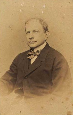 Danish diplomat, baron Otto von Plessen (1816-1897)